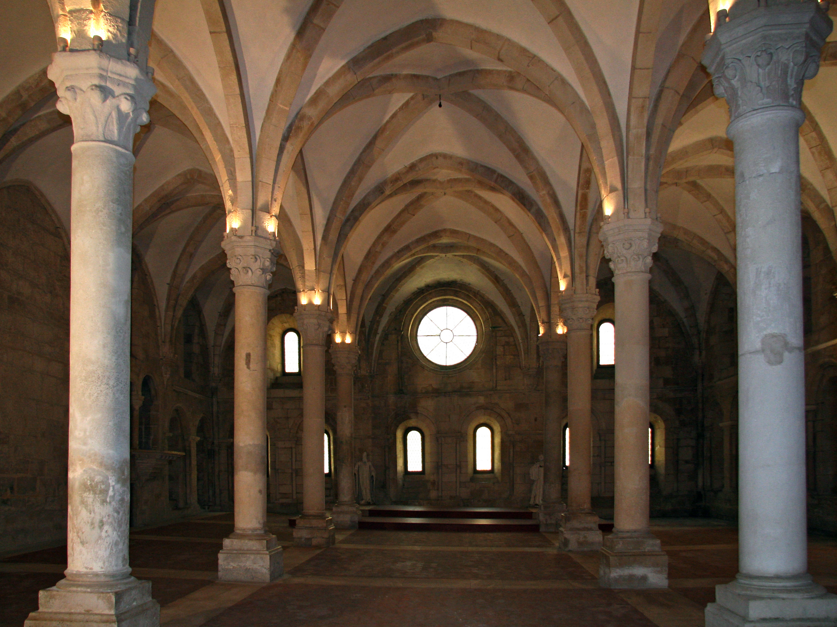 Refectory of the Alcobaça Monastery, Portugal